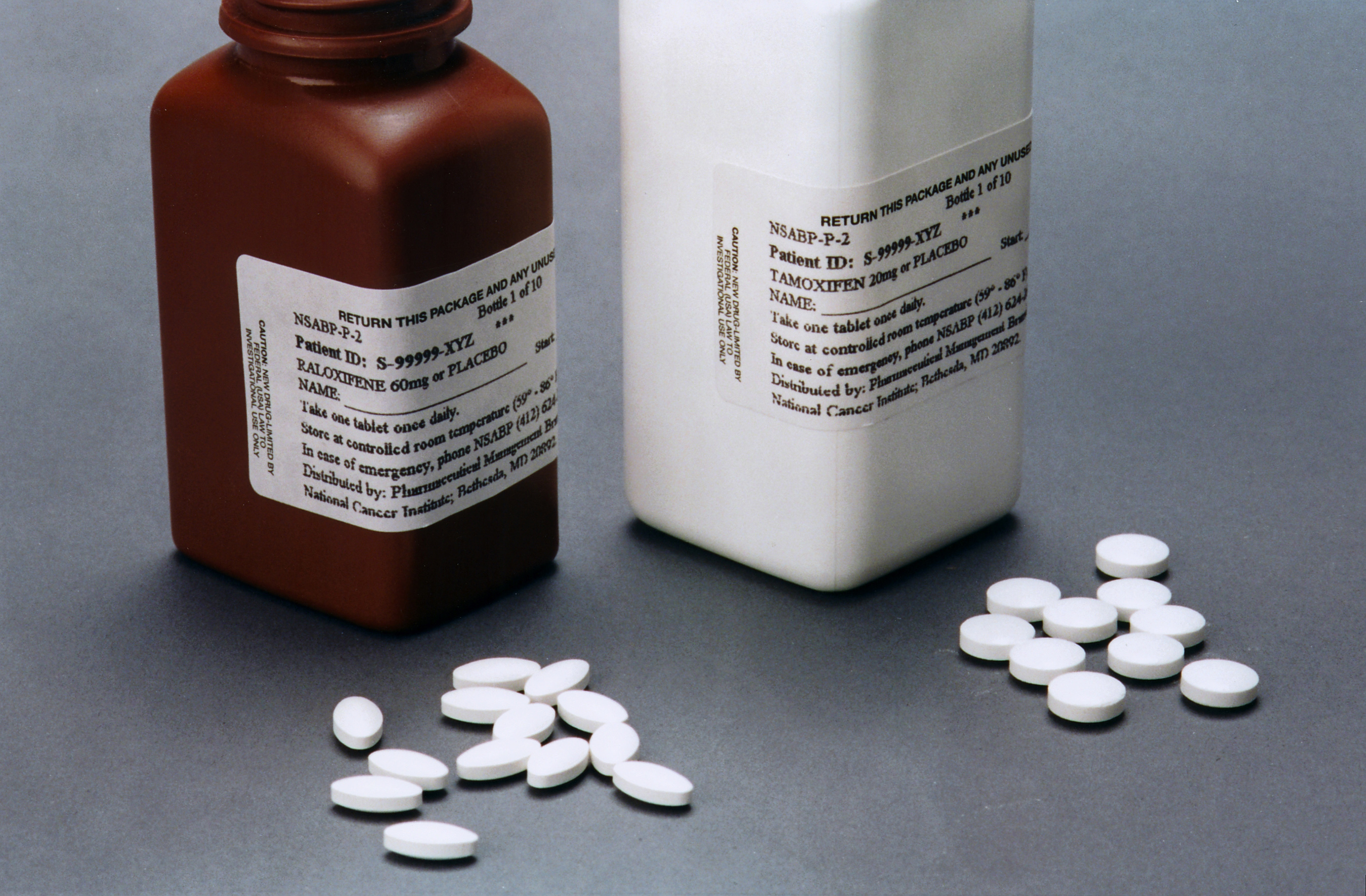 These bottles and pills are of the drugs tamoxifen and raloxifene that are being used in a breast cancer prevention trial (STAR).